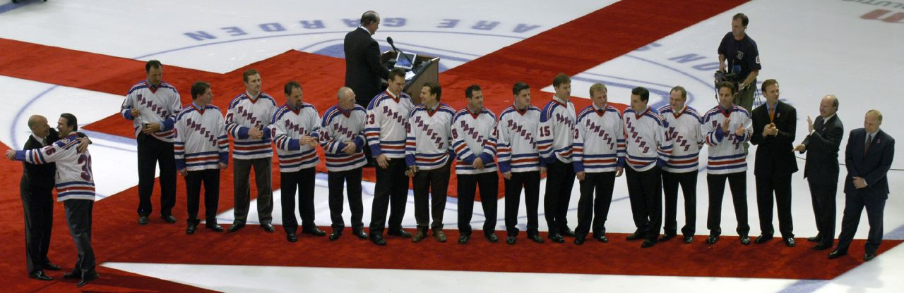 Former Players of the New York Rangers at the jersey retirement of Mark Messier